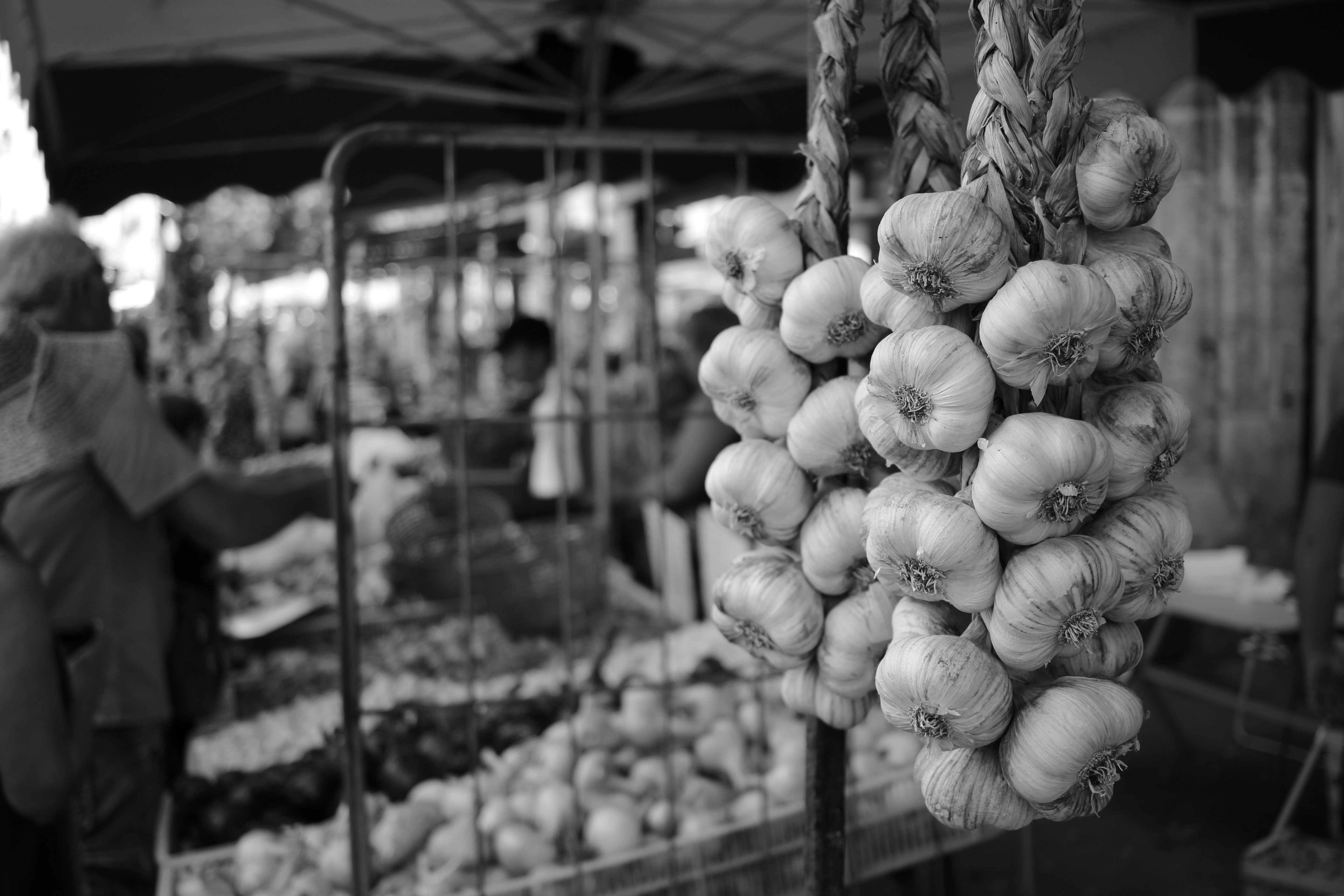 Garlic on a stand during the garlic and basilic fair of Tours, a traditionnal event held each 26th of July in the city of Tours. This photo was taken on the "monster place" (la place du monstre), also called "the great market place" (place du grand marché)